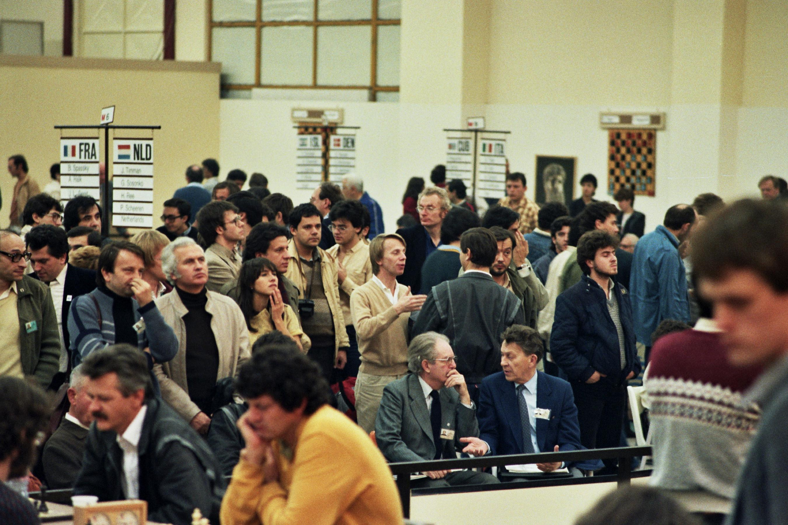 Spectators, Ulf Andersson midst, Chess Olympiad 1984 in Thessaloniki, Photographer Gerhard Hund.